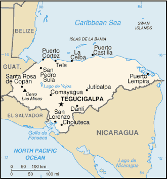 Map of Honduras